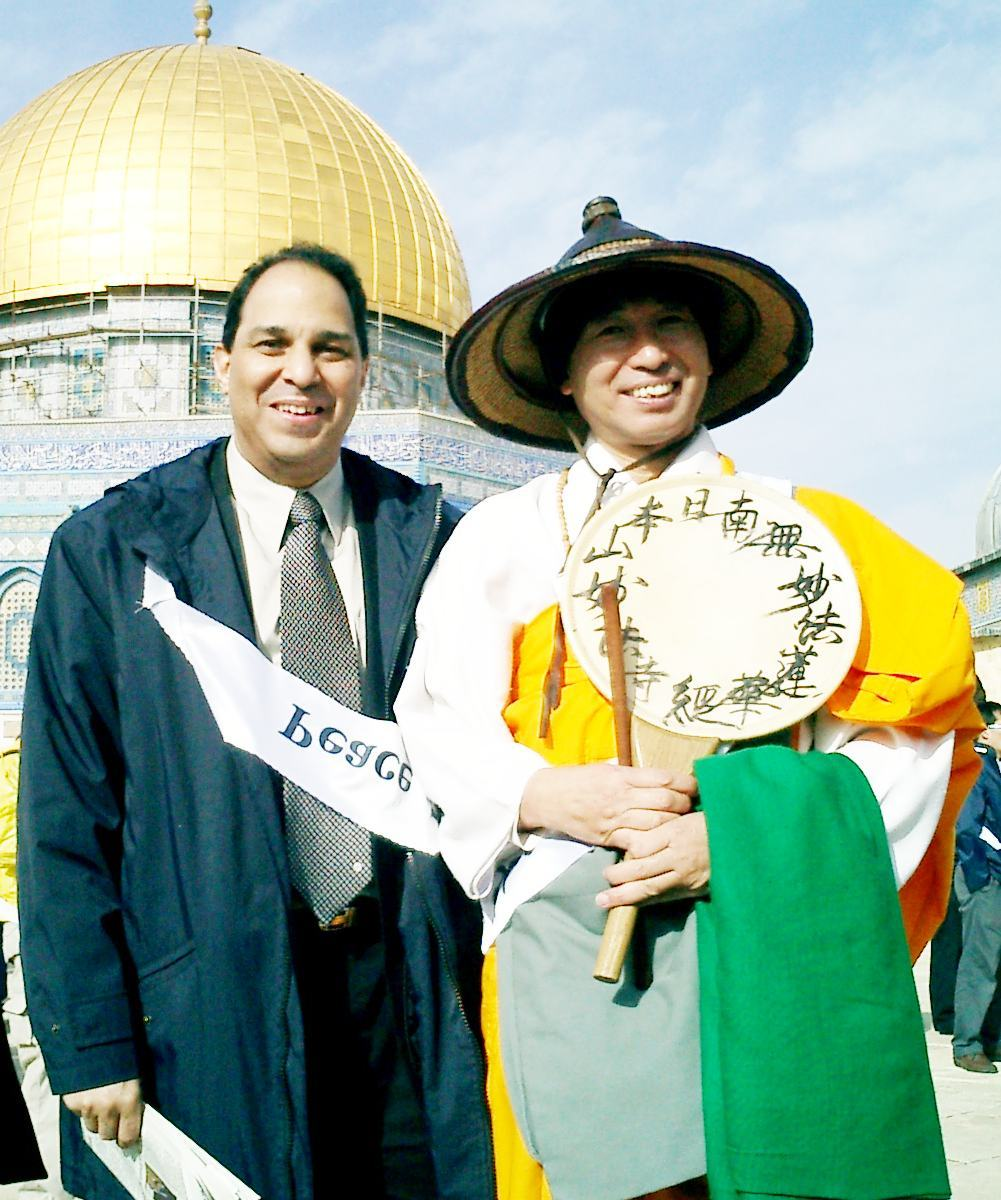 Ven. Junsei Terasava in his famouse hat and leader of Inter Religious Federation for World Peace Dr. Frank Kaufmann. Jerusalem, 2003.